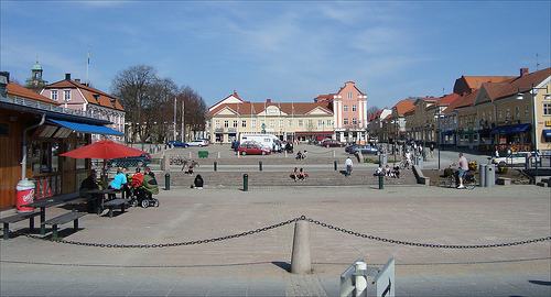 Town square